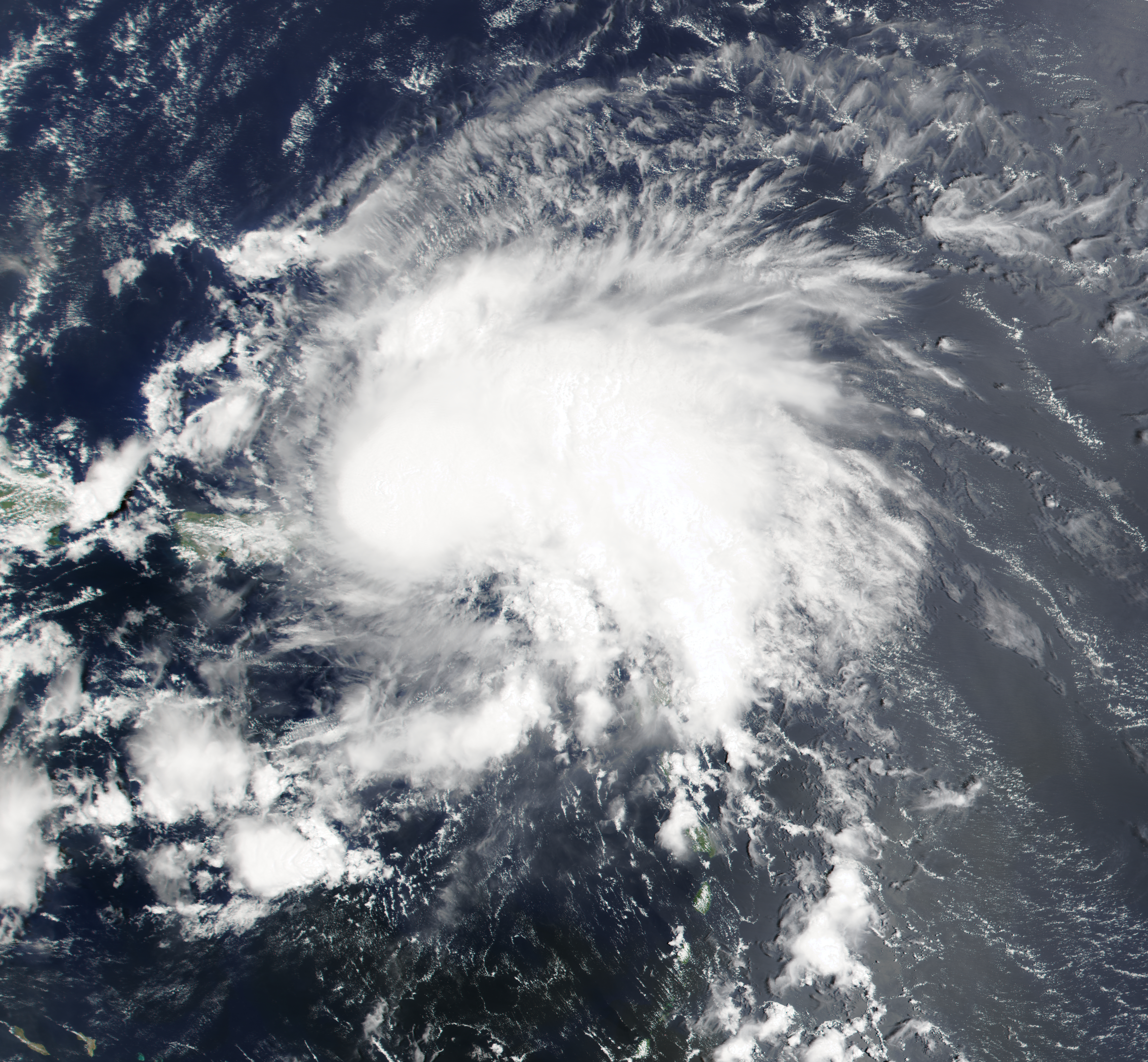 Hurricane Debby on August 22, 2000